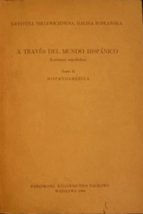 cover page of Krystyna Niklewiczówna, Halina Popławska, A TRAVES DEL MUNDO HISPANICO Lecturas espanolas, Warszawa 1962